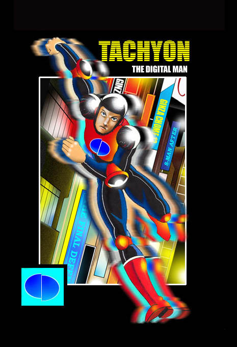 Tachyon the Digital Man.